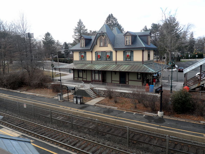 Fanwood Station NJ 2014